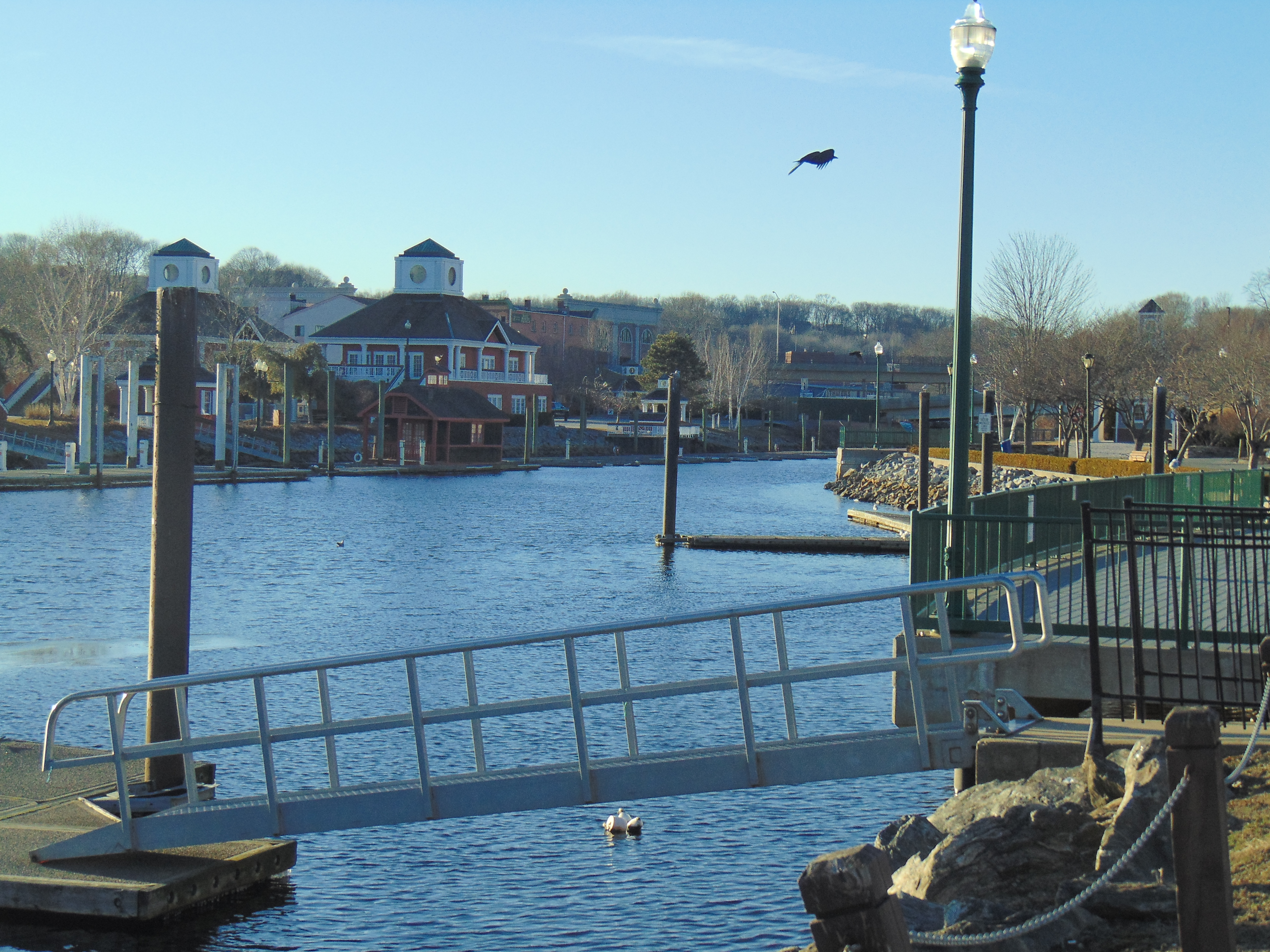 A photo of the Norwich Marina, and the Yantic River